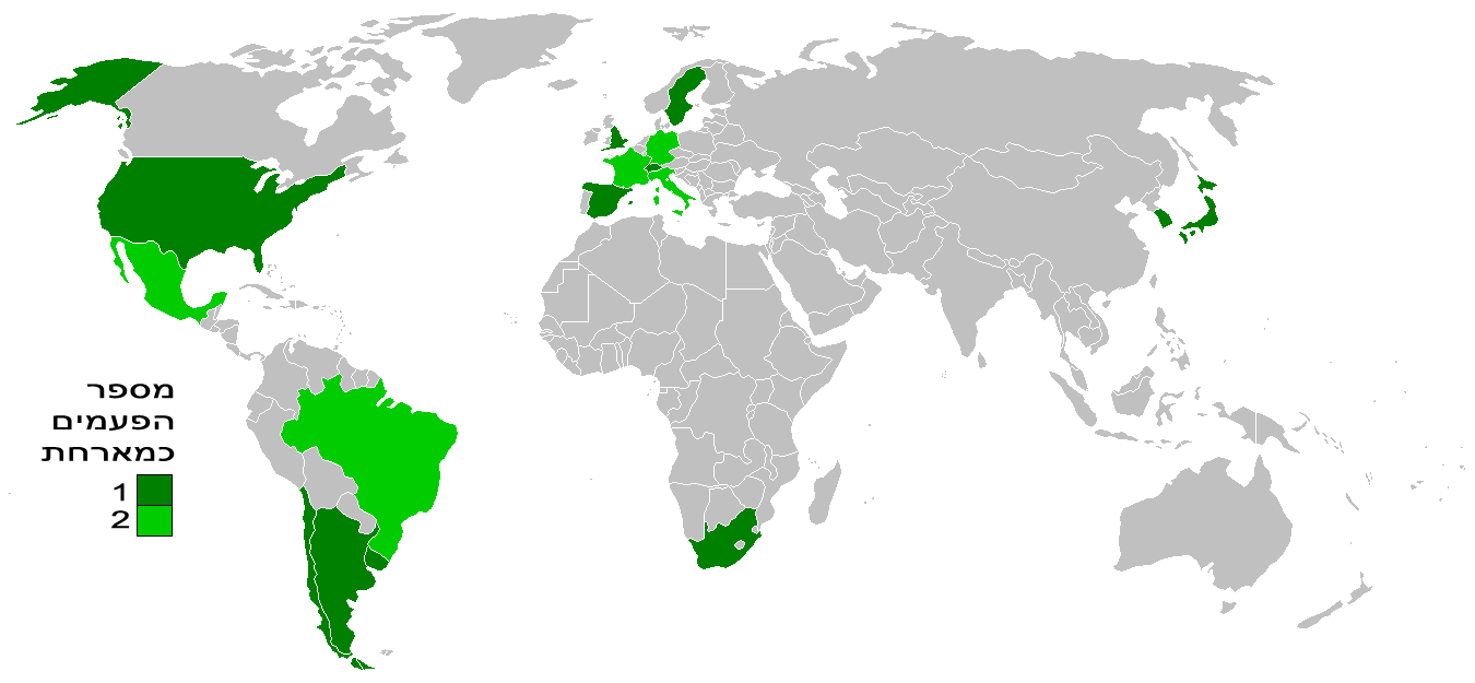 A map showing the locations of all FIFA World Cup hosts as of 2006. Note that Germany hosted first as West Germany. Also note that Republic Korea and Japan were co-hosts in 2002. Decided future hosts like South Africa's first and Brazil's second time not featured.